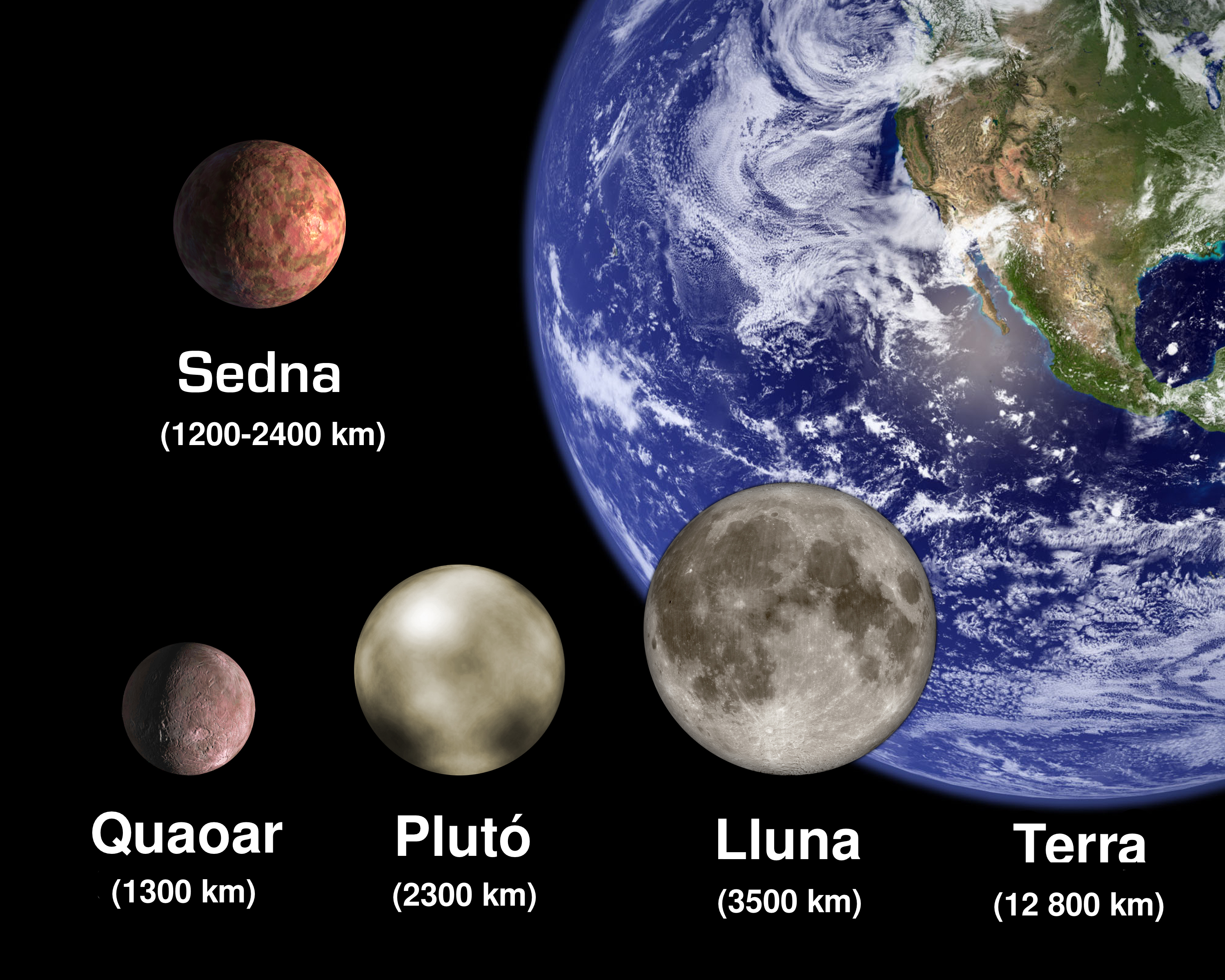 This now obsolete 2004 artist's rendition shows the then-newly discovered planet-like object, dubbed "Sedna," in relation to other bodies in the solar system, including Earth and the Moon; Pluto; and Quaoar. (Quaoar is now known to be roughly the size of dwarf planet Ceres. But between 2002 and 2004, Quaoar was the largest known Trans-Neptunian object other than Pluto and Pluto's moon Charon.) The diameter of Sedna is roughly three-quarters that of Pluto, but notably larger than Quaoar.